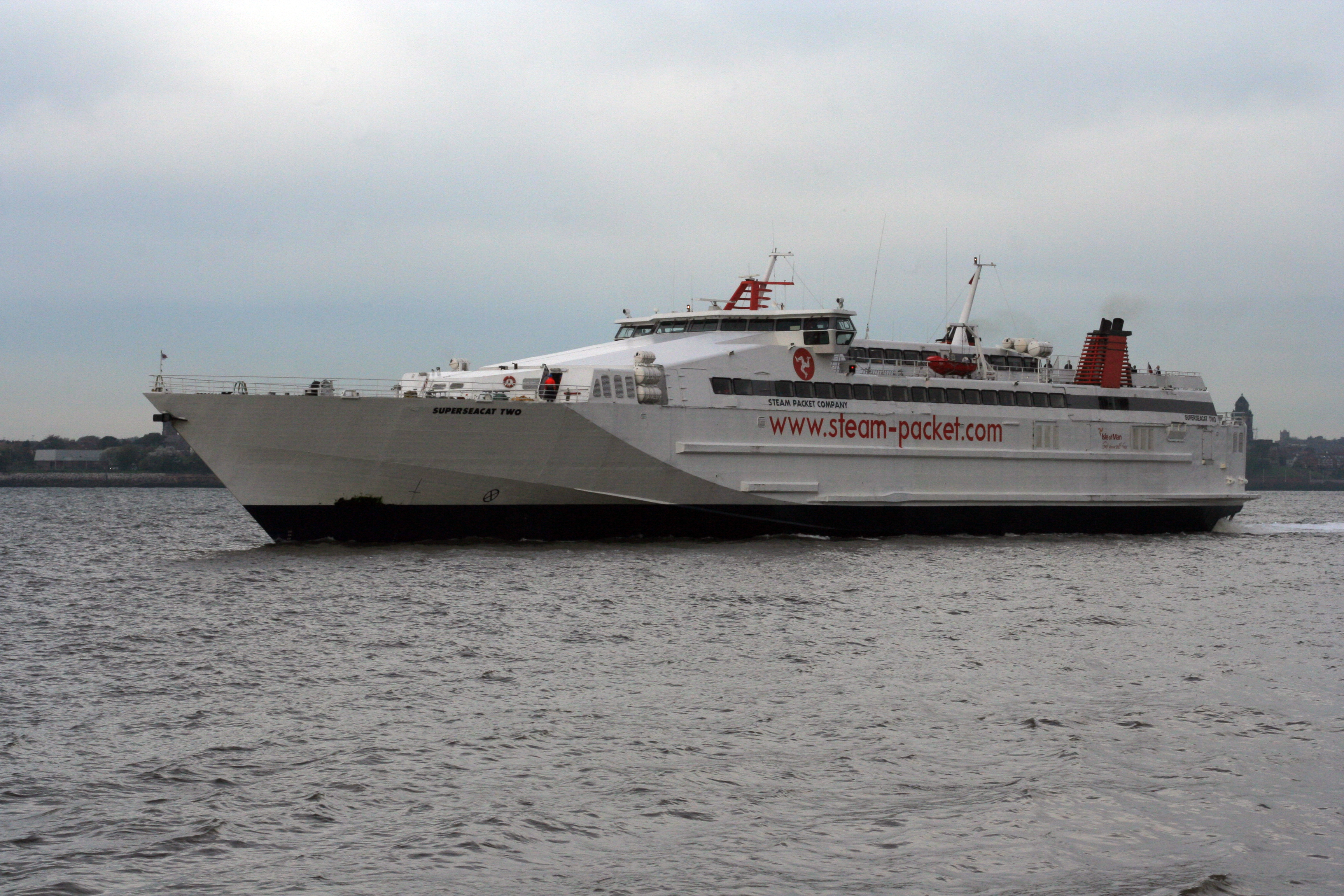 The SuperSeaCat is a mono-hull fast ferry, built by Fincantieri in Italy. Seen here at Liverpool.